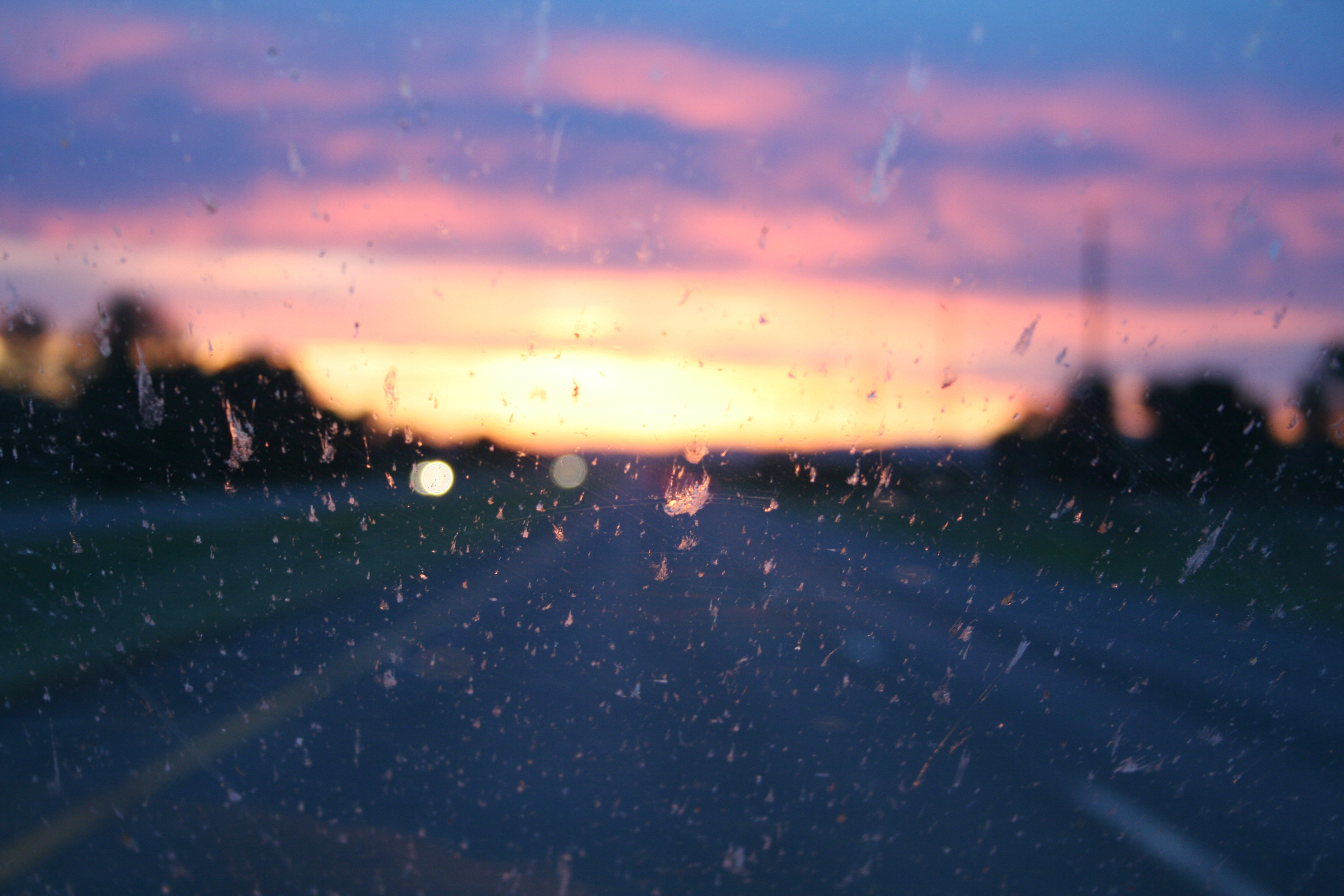 Bugs on a windshield at sunset